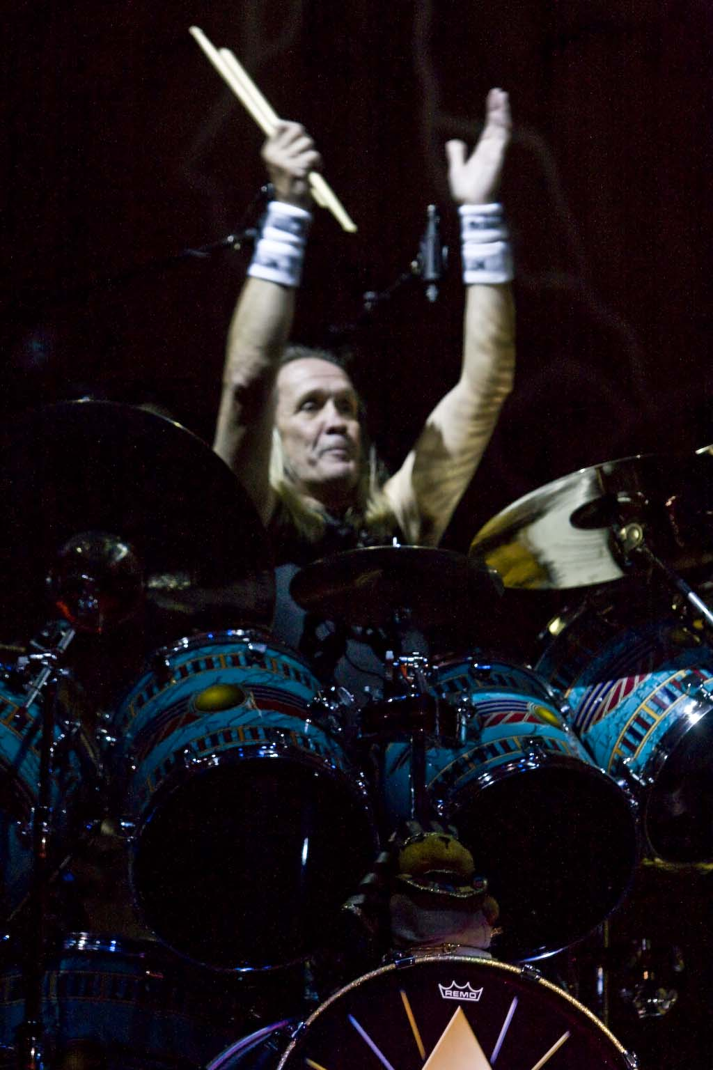 Nicko McBrain, Iron Maiden